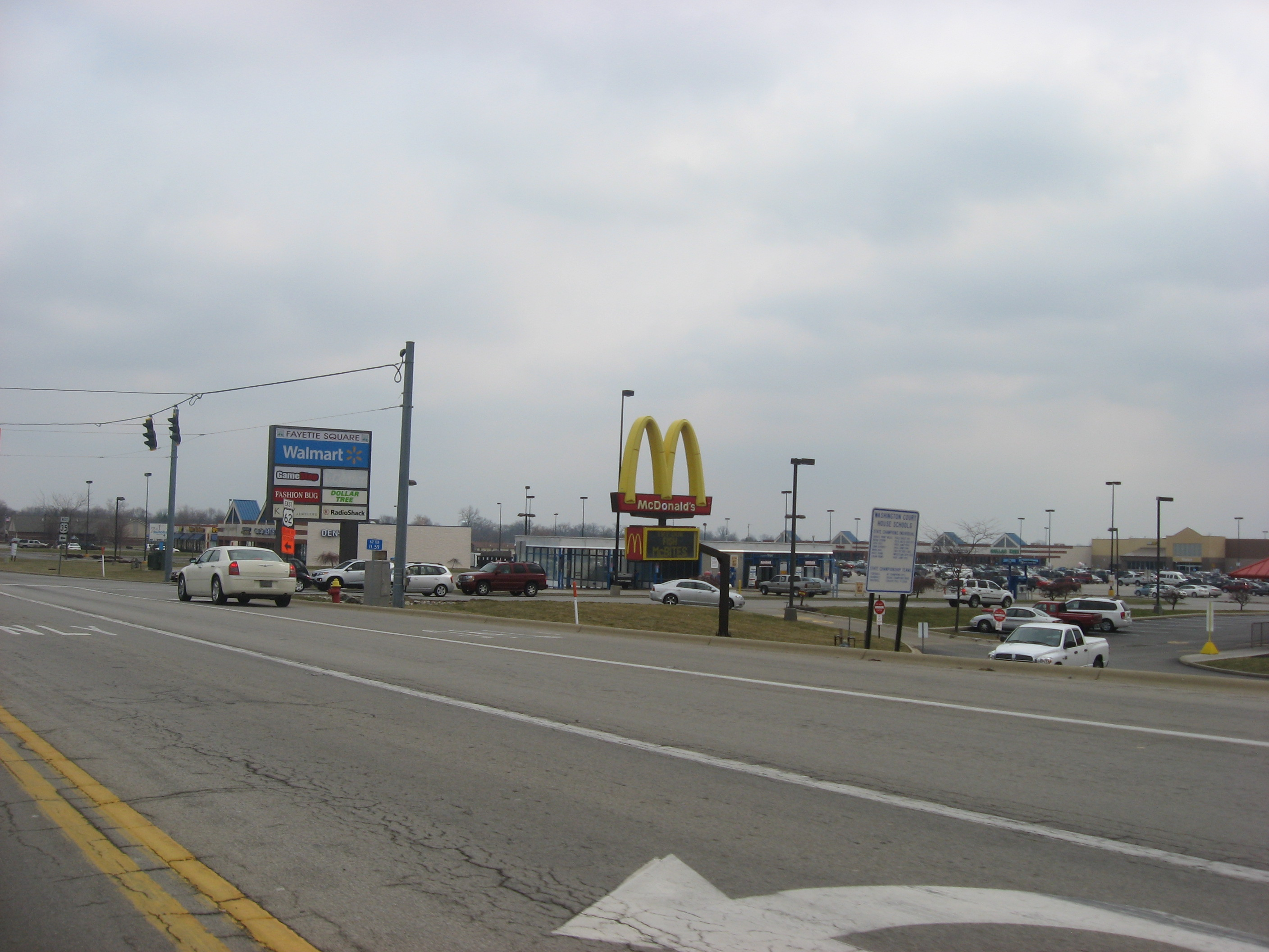 Southern side of U.S. Route 62/Leesburg Avenue on the western edge of Washington Court House, Ohio, United States, overlooking the site of the William Burnett House. The house was listed on the National Register of Historic Places in 1989 and has not yet been removed.